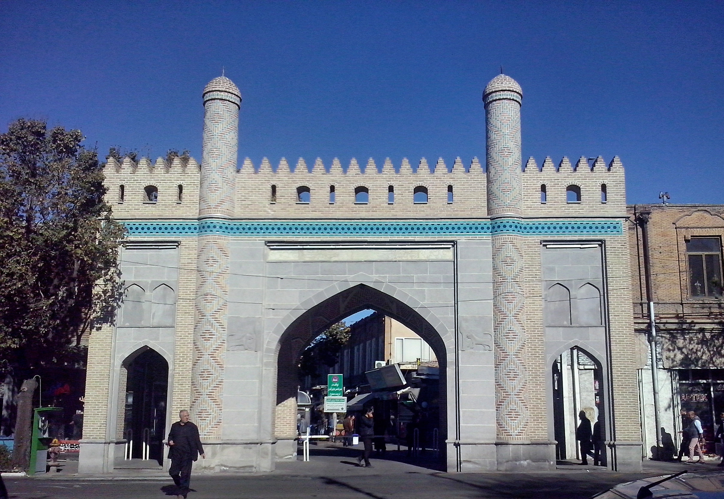 Nowbar gate, one of the city gates of Tabriz